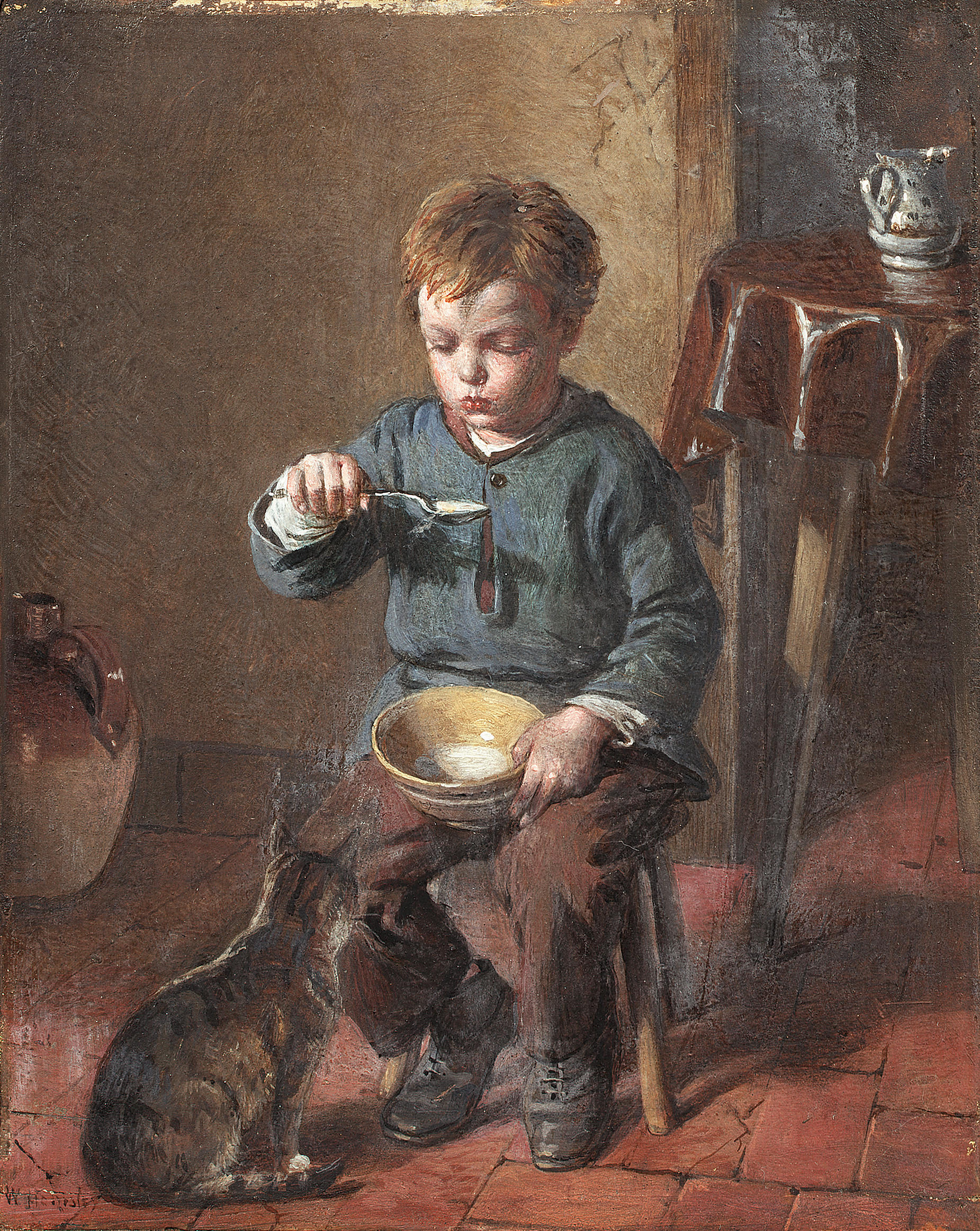 Porridge. Signed 'W Hemsley', titled on reverse. Oil on panel. 16.5 x 13 cm